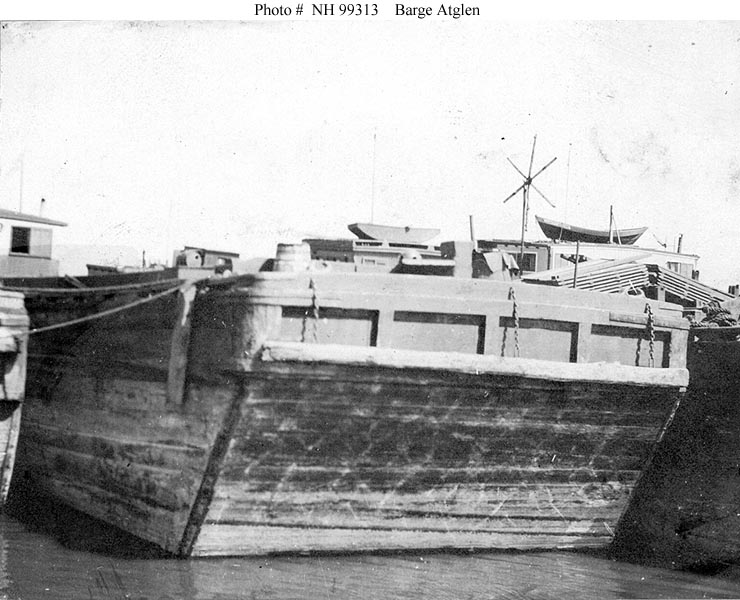 United States Navy barge USS Atglen (ID-1315), also listed as ID-1350, probably in New York City at the time of her inspection by the 3rd Naval District for possible World War I U.S. Navy service, prior to her acquisition by the Navy.